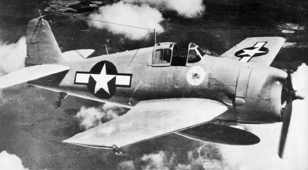 An unmanned U.S. Navy Grumman F6F-5K Hellcat drone in flight, ca. 1946.